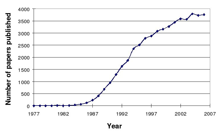 Occurrence of the term “signal transduction.” The total number of papers published per year since 1977 containing the phrase “signal transduction” in their title or abstract. These figures were extracted through an analysis of papers in the MEDLINE database. The total published since 1st Jan 1977 through 31st December 2007 is 48,377, of which 11,211 are reviews.